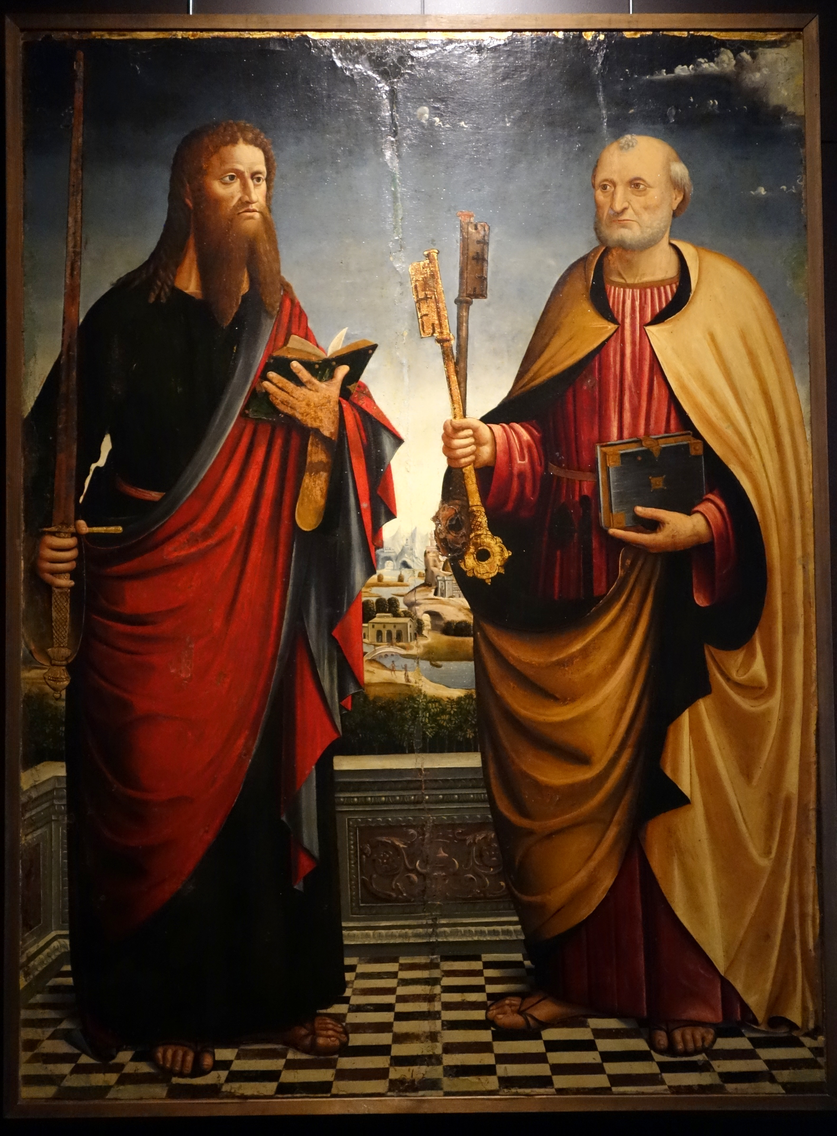 Exhibit in Museo Diocesano, Via Tommaso Reggio, 20 r, Genoa, Italy. All artwork in this museum is old enough so that it is in the public domain.